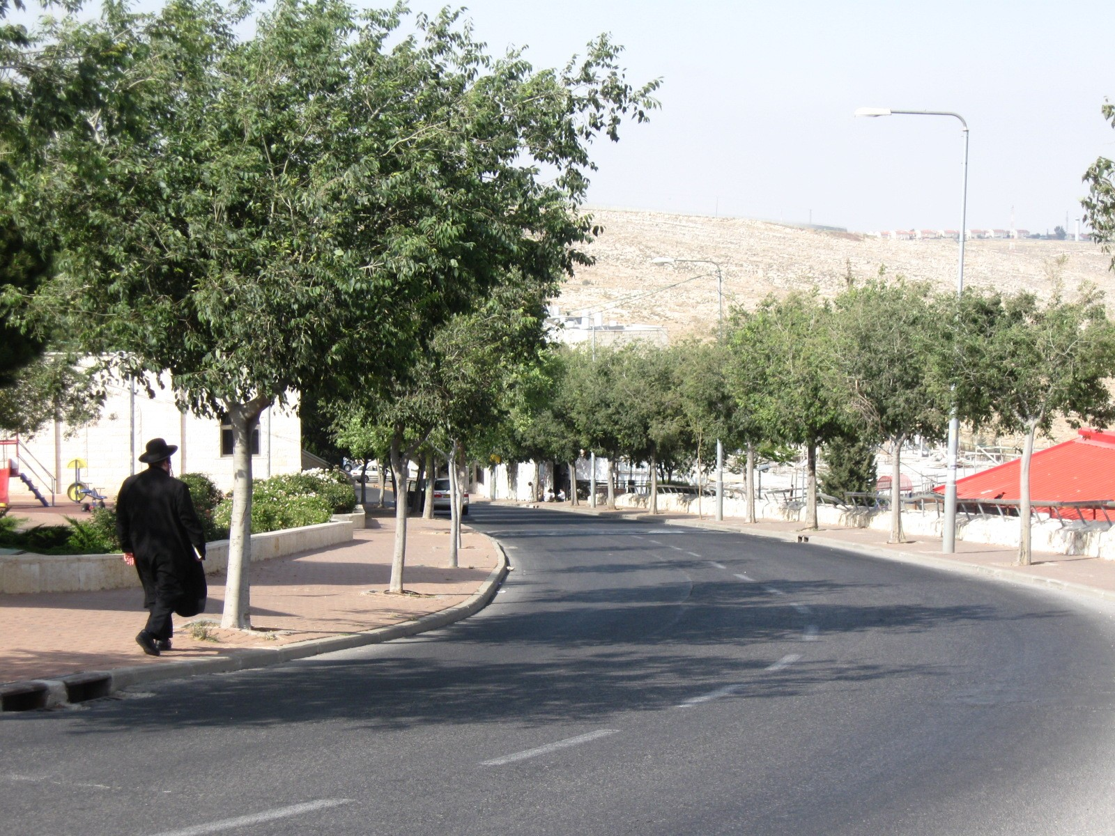 Zevin St. in Neve Yaakov Mizrach, Jerusalem.